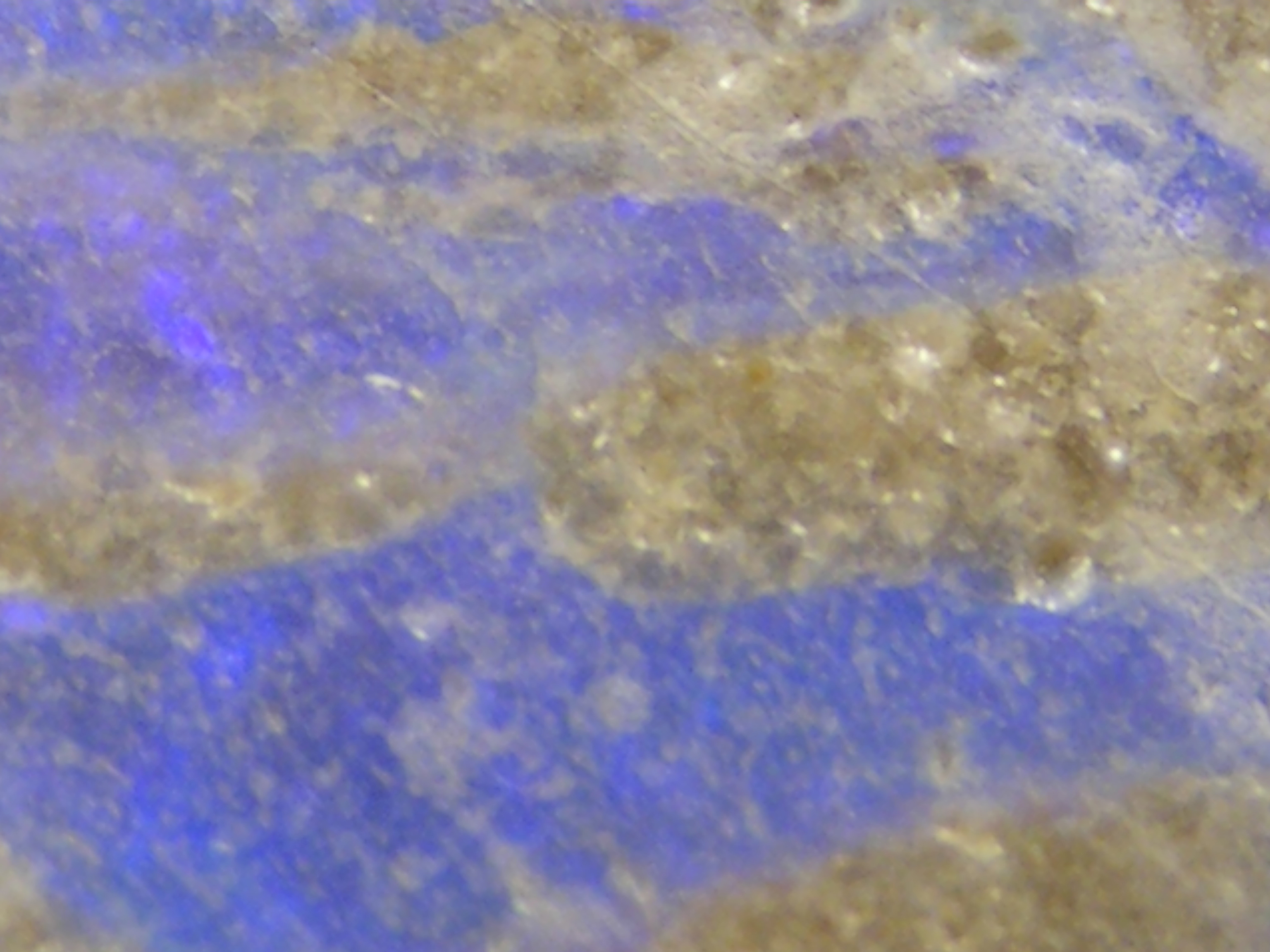 A rock with Matrix opal striations throughout